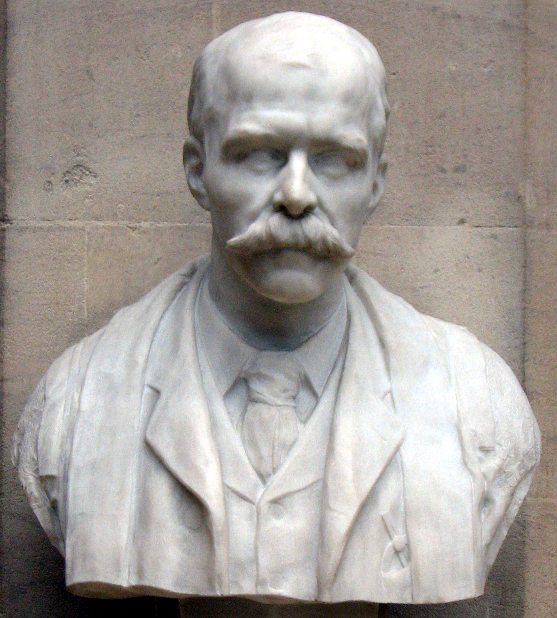 Walter Frank Raphael Weldon, English evolutionary biologist. Statue on permanent display in the Oxford University Museum of Natural History.